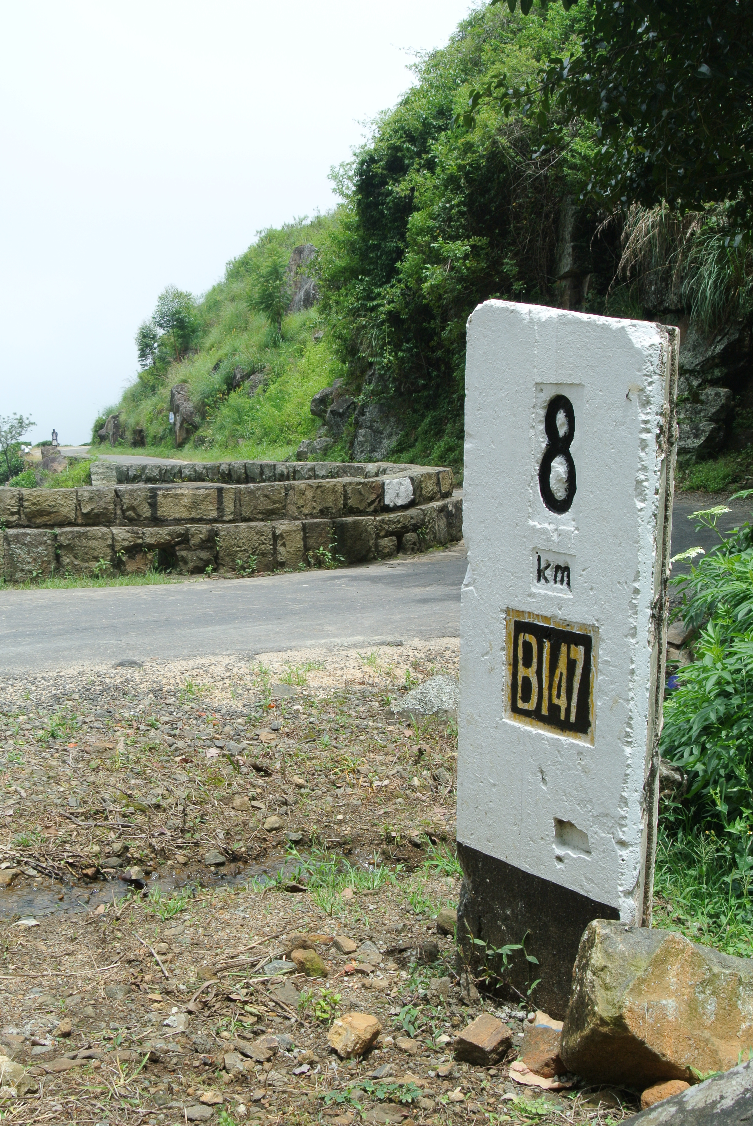 Marker on Highway B147 in Badulla district, Uva province, Sri Lanka.